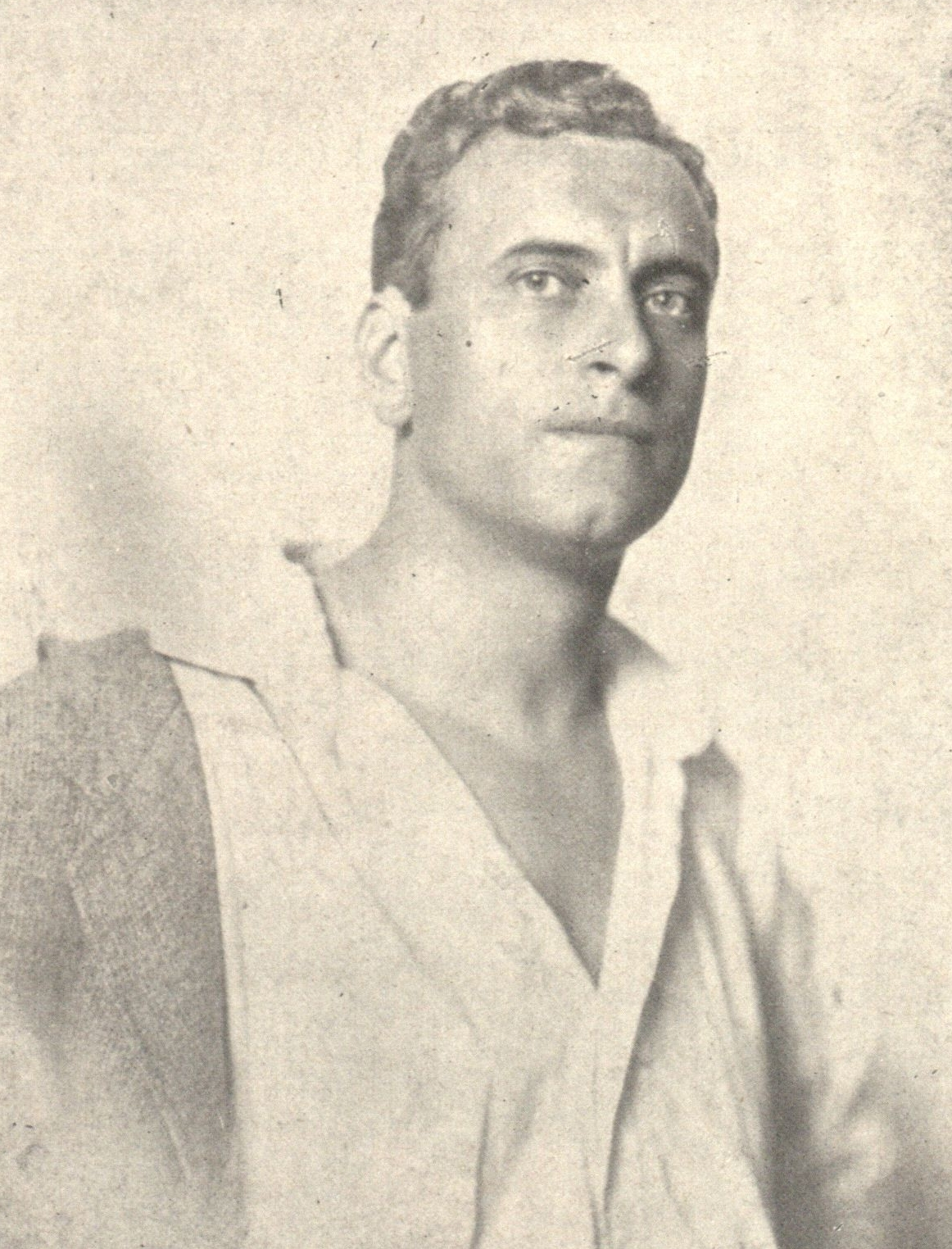 Franz Höbling (1911–1959), actor, member of the Burgtheater in Vienna